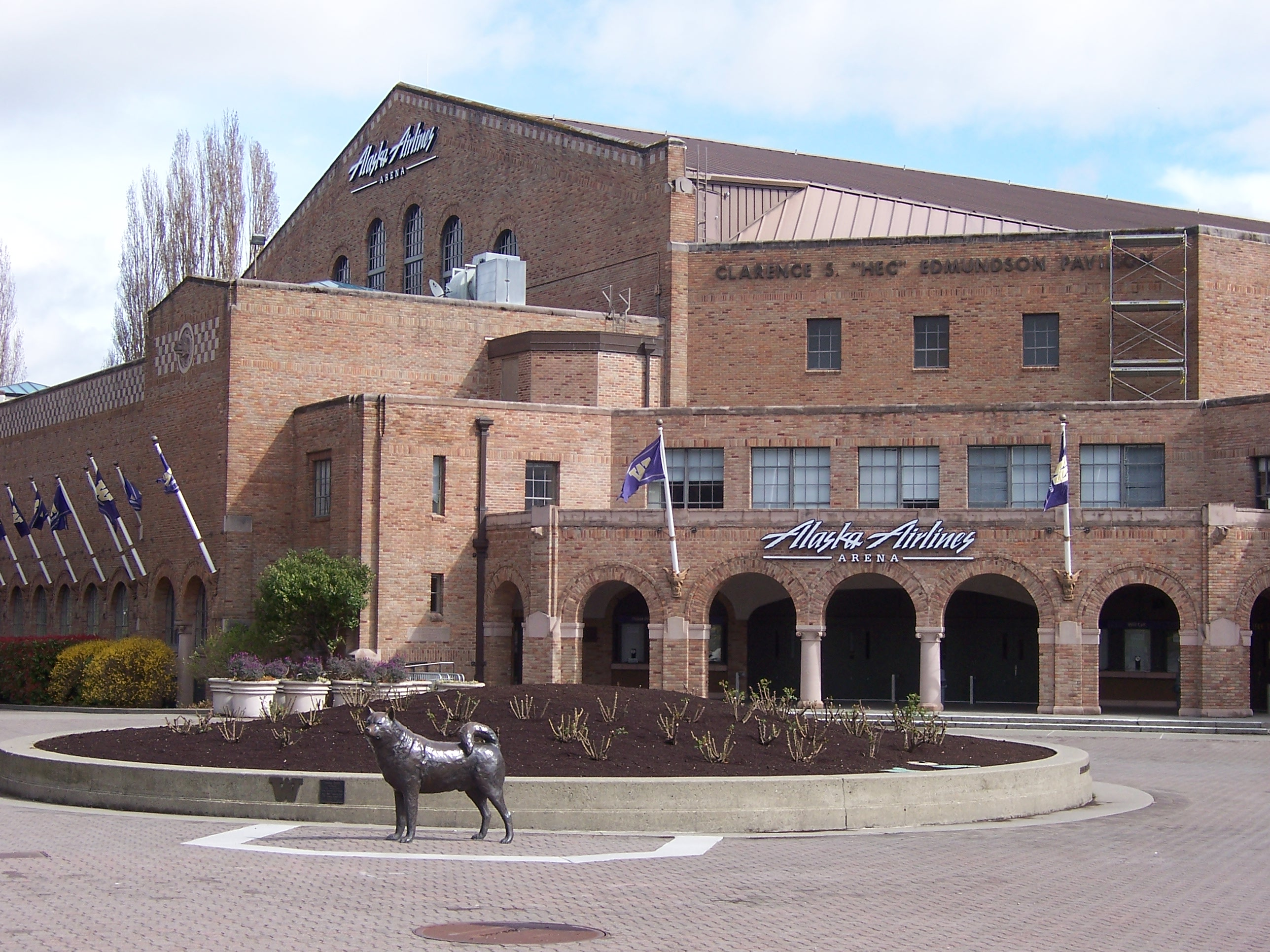 Alaska Airlines Arena at Hec Edmundson Pavilion at the University of Washington in Seattle, seen in March 2012.